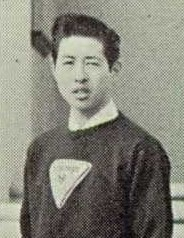 Patrick Nagatani in the Circle 1962 yearbook of Dorsey High School in Los Angeles.